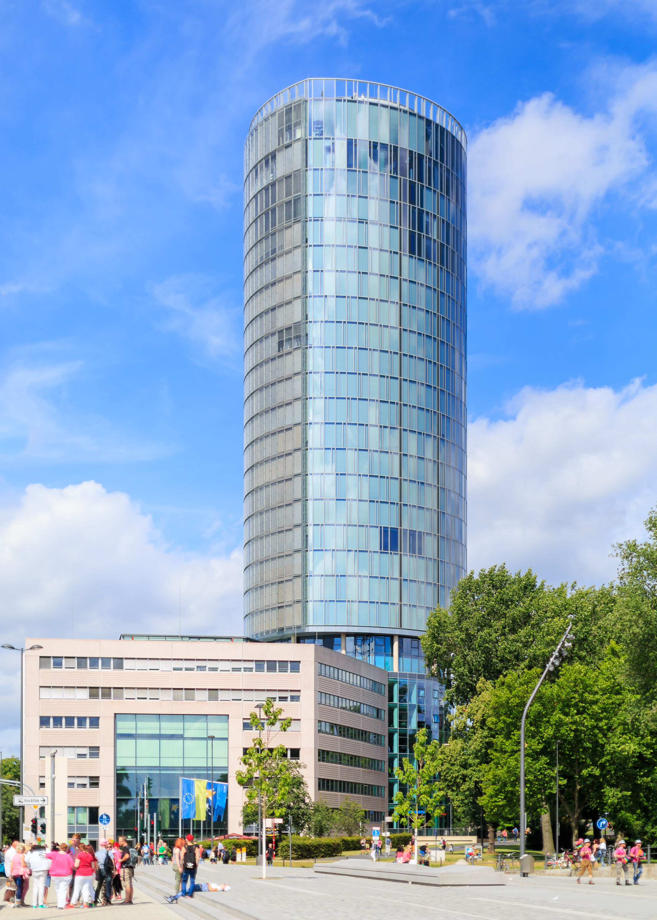 Cologne, Germany: KölnTriangle Tower in Köln-Deutz